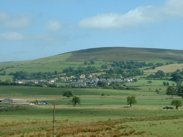 Kelbrook village, (near Earby), in Lancashire, England. Kelbrook Moor visible behind.